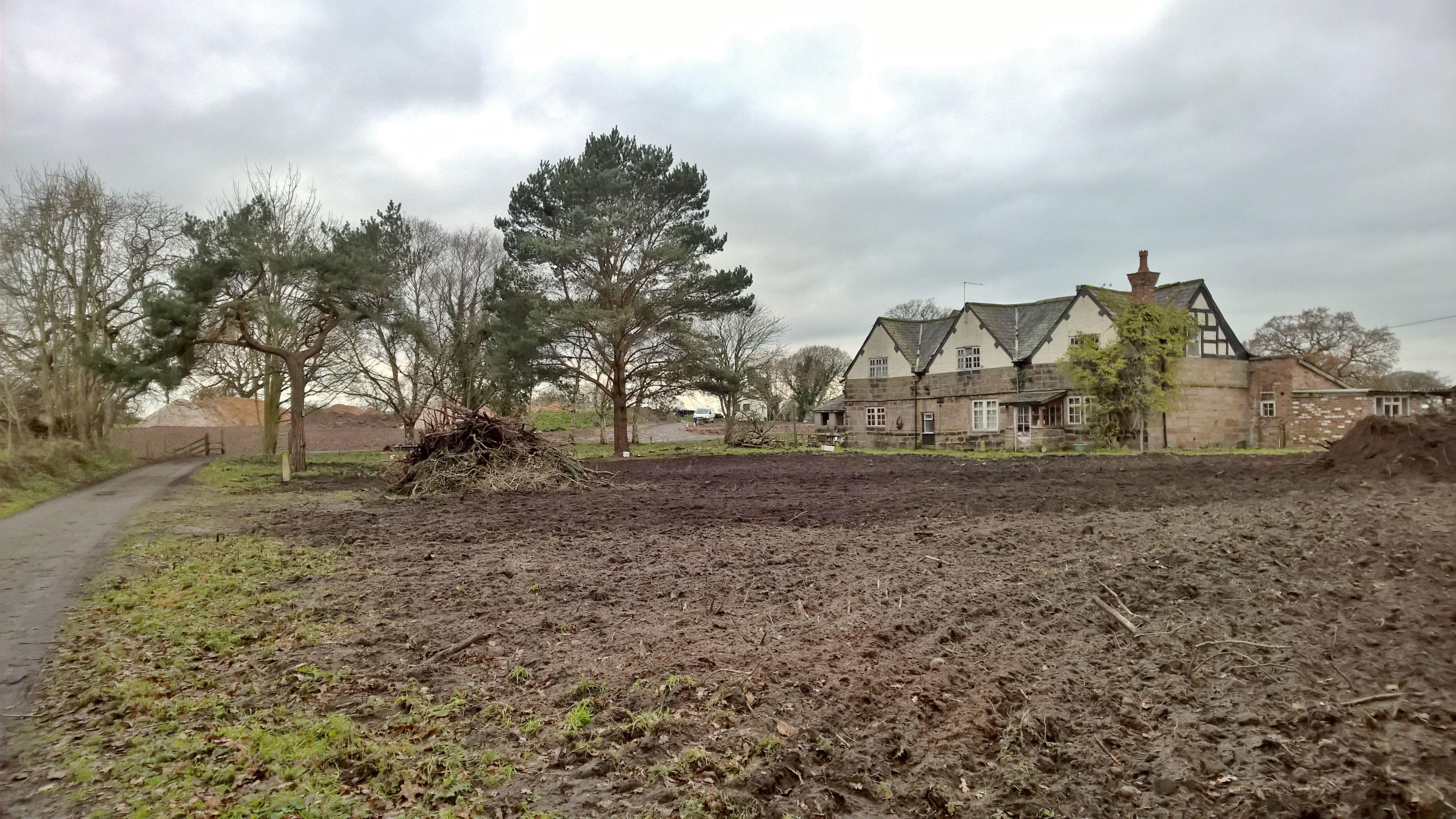 Saltersley Hall Farm